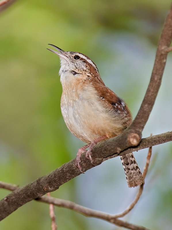 Carolina wren in North Carolina